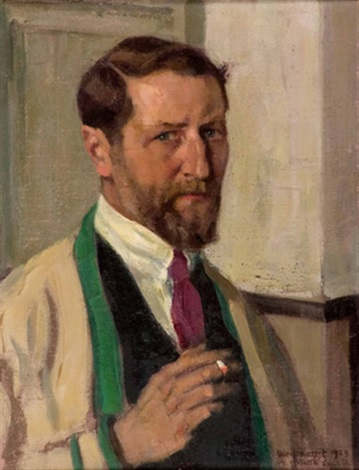 Emil Thomaː Selbstportrait, 1923, oil on canvas, 58 x 45 cm (22,8 x 17,7 in)